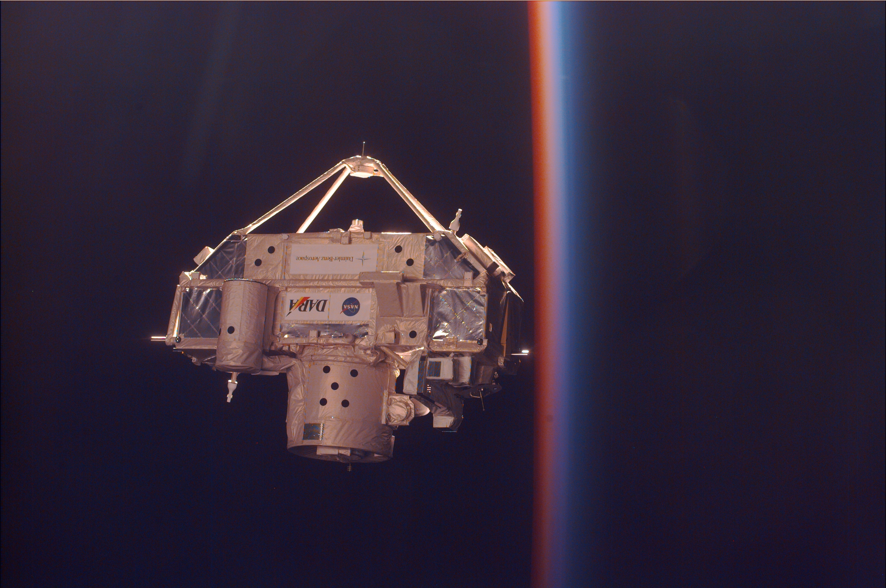 CRISTA-SPAS-2 appears "next" to a colorful pole, which is actually the atmosphere above Earth. Moments later, the previously free-flying satellite was in the grasp of Discovery's remote manipulator system (RMS).